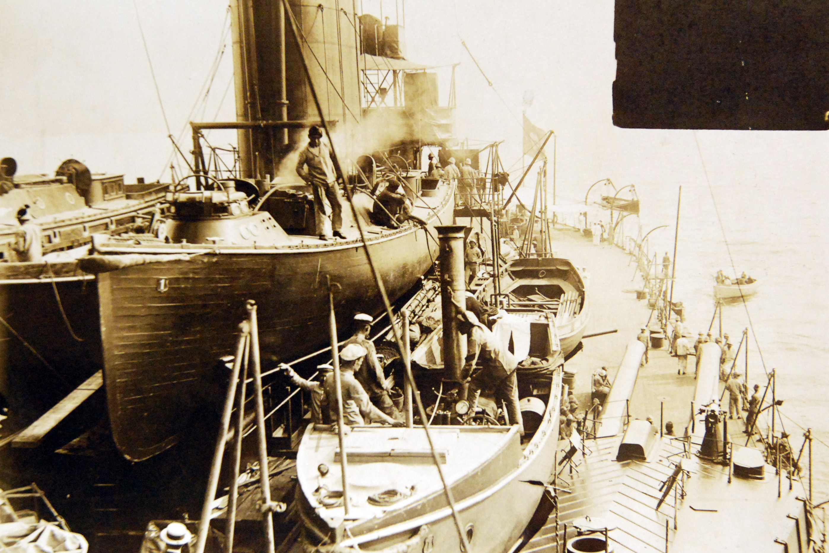 Lot-11256-7: Brazilian battleship, Minas Geraes (1910-1952), gun turret. Bain Collection. Courtesy of the Library of Congress. (2017/08/04).